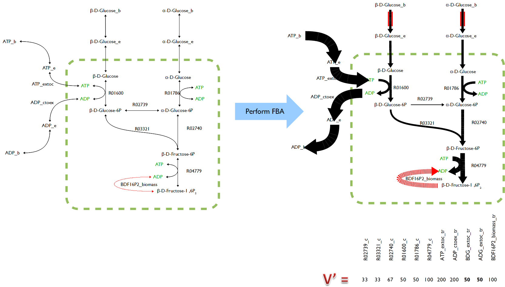 A metabolic network before and after flux-balance analysis. The 'after' picture conveys the optimal flux from the nutrient source to the biomass function as the weight of the lines representing each reaction. These weights correspond to the reaction flux vector, v, shown below in its transposed orientation v'.